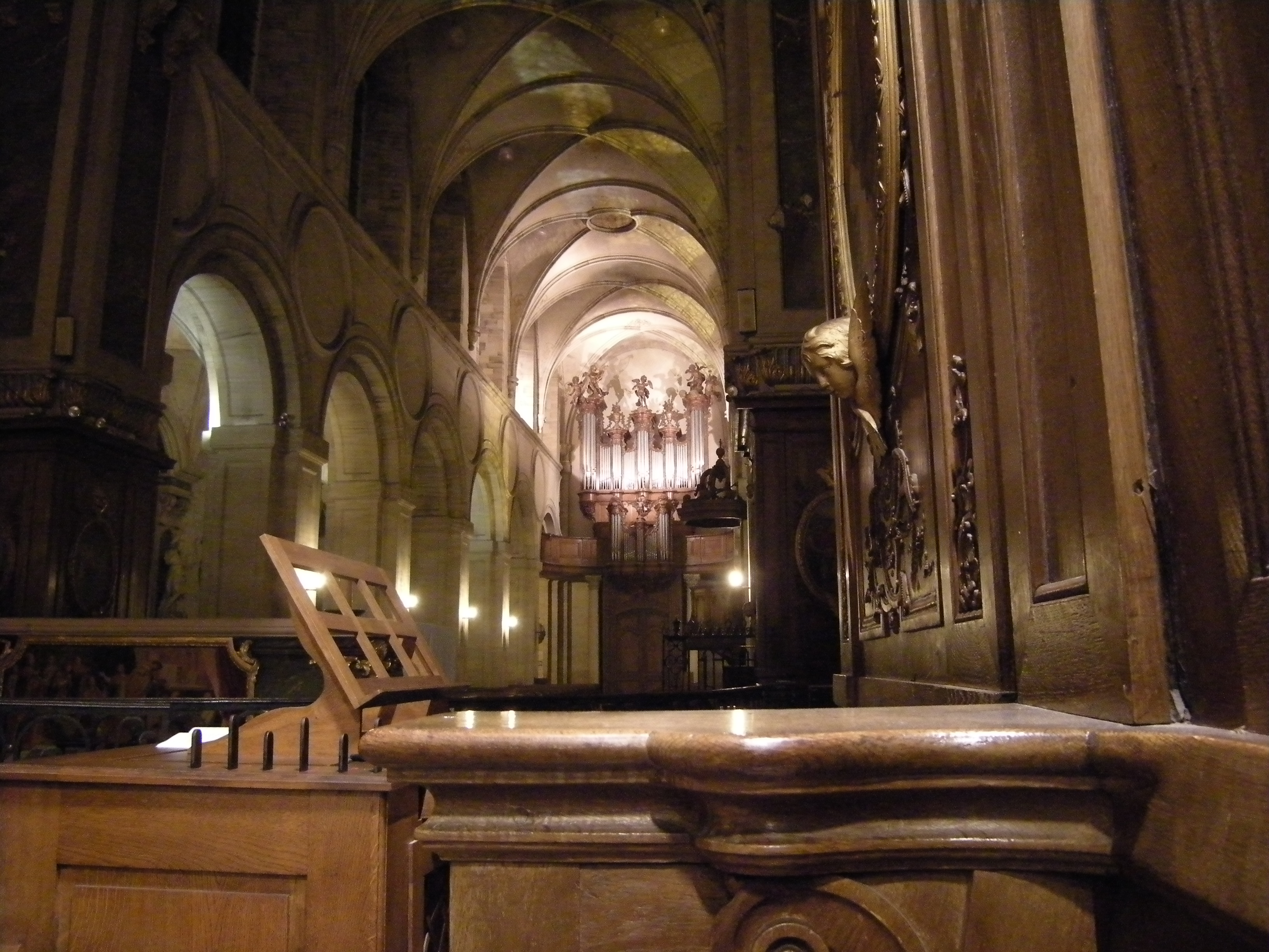 The church of the Abbey of Mondaye in France, by night.